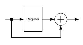 A differential decoder